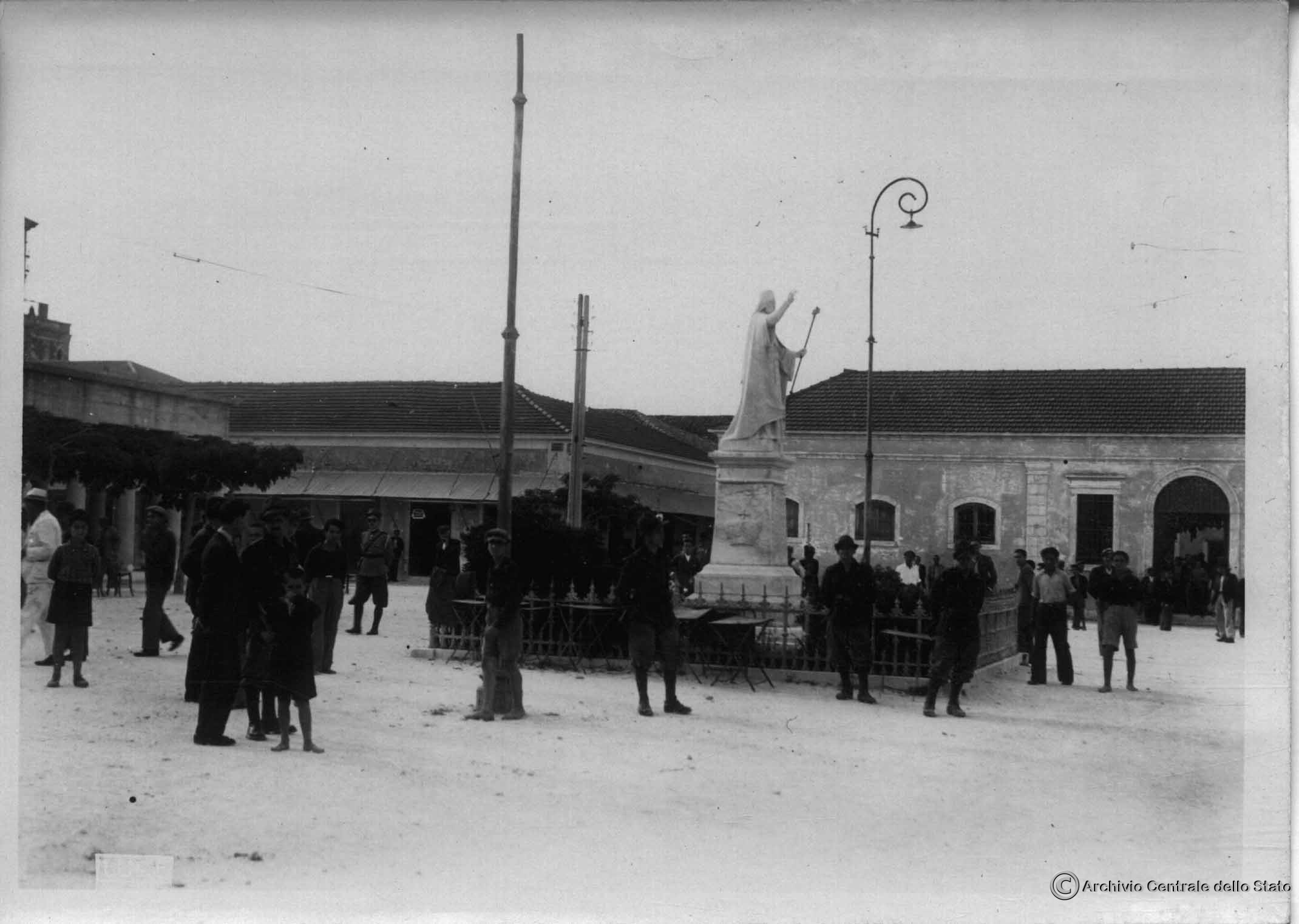 A Greek town garrisoned by Italian troops.